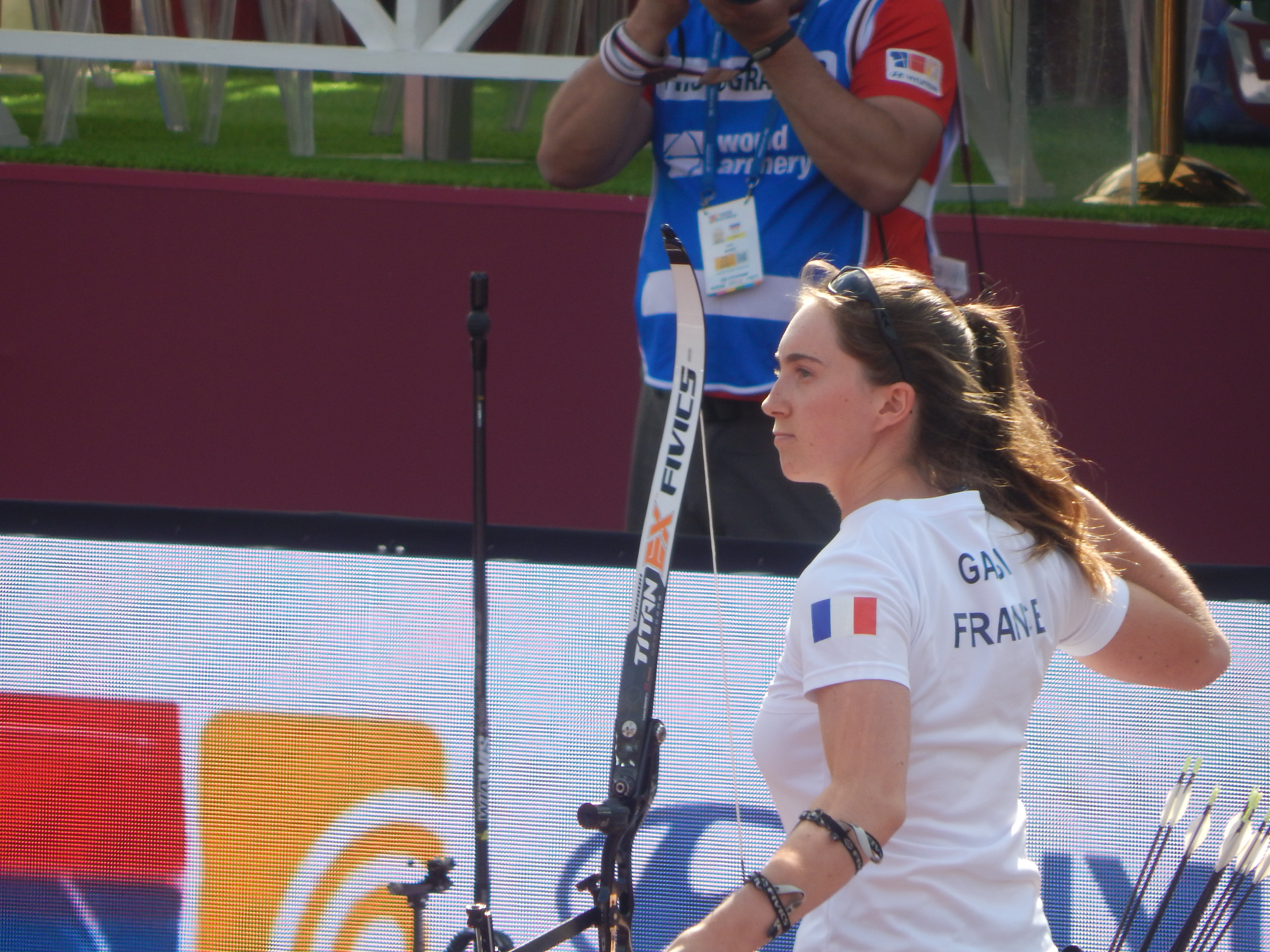 2019 Archery World Cup Final in Moscow. Women's Recurve.